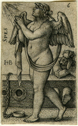 Beham, (Hans) Sebald (1500-1550): Spes: Hope, from Cognition and the Seven Virtues (B.134 ii/v, before the dots along the face).